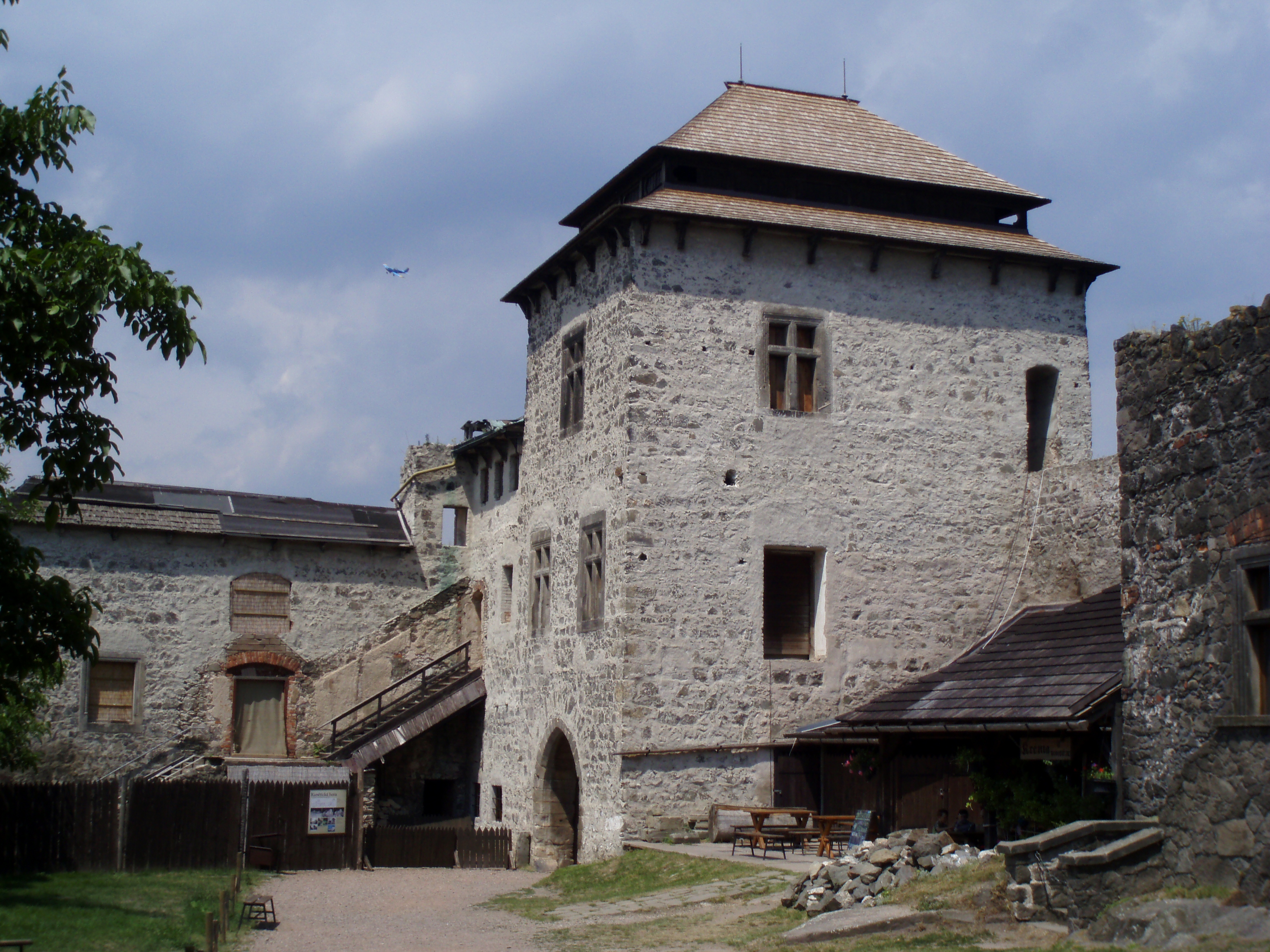 Kunětická hora Castle (CZ)